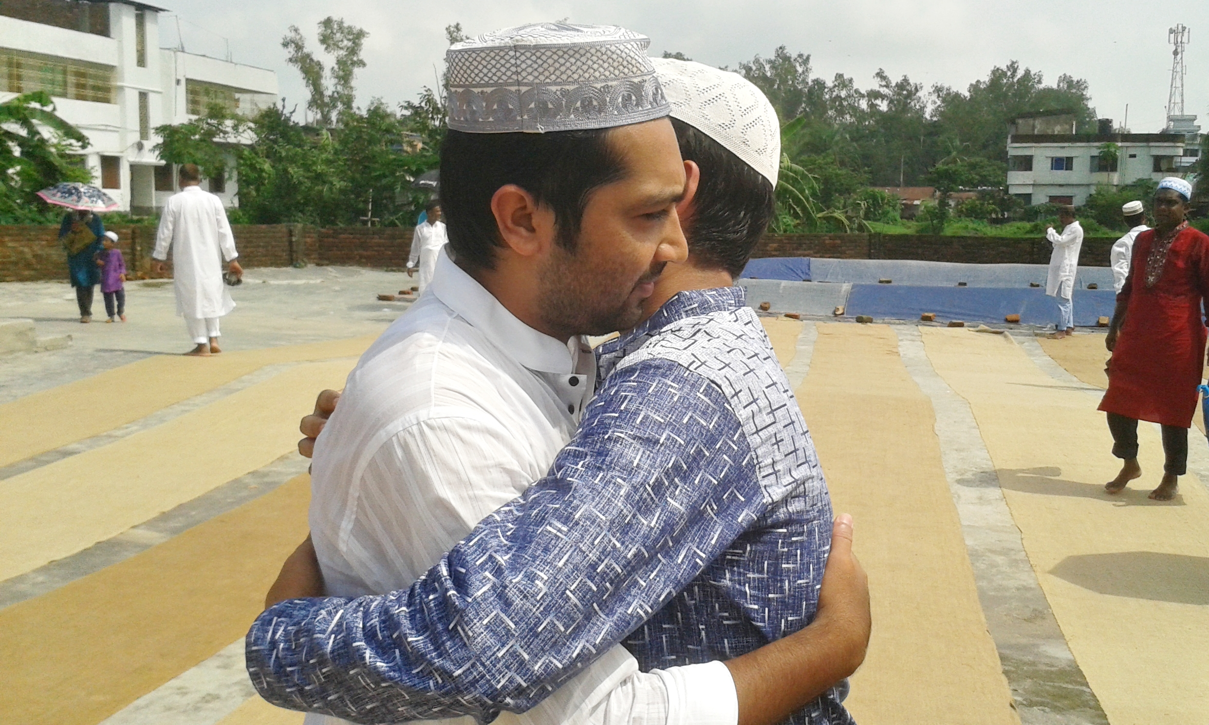 Lallygag after Eid prayer in Bangladesh